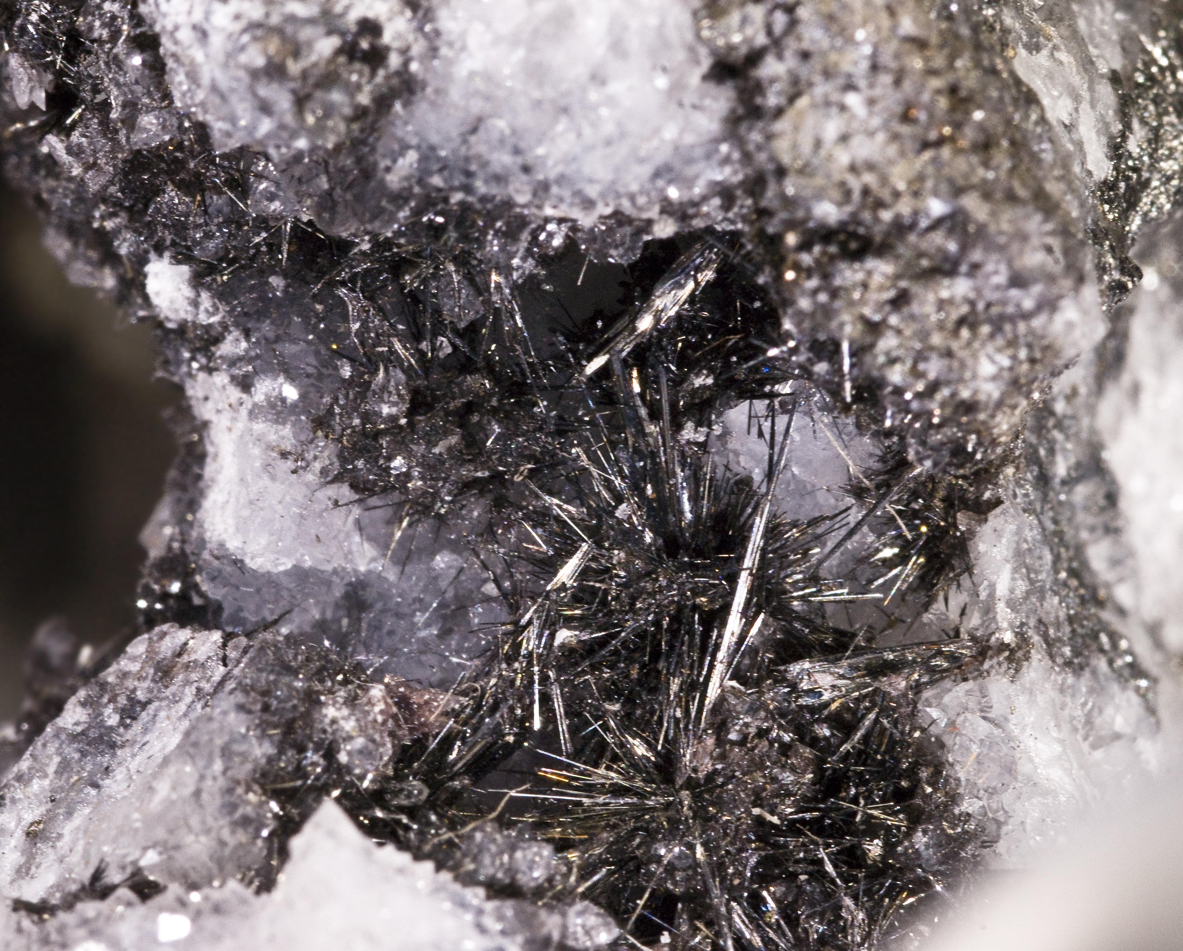 Jamesonite with quartz Locality : Anita Mine - Huaron Peru - (View 4cm).